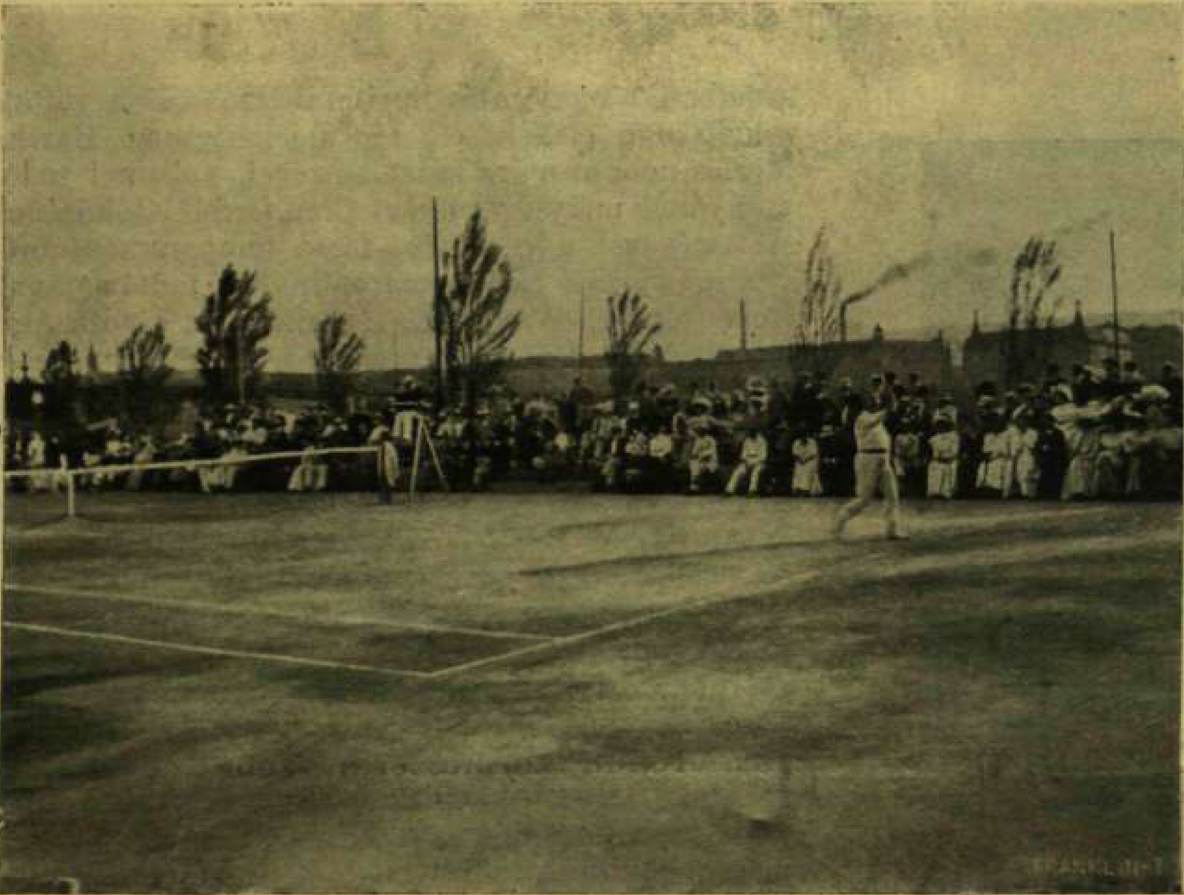 Margitsziget court in Budapest, Hungary in 1908. Published in the weekly periodical newspaper called Vasarnapi Ujság by the printing press inc. Franklin Irodalmi és Nyomdai Rt. in 1908.